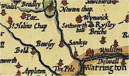 A splice of a 1610 Map showing the local region of Lancaster in 1610